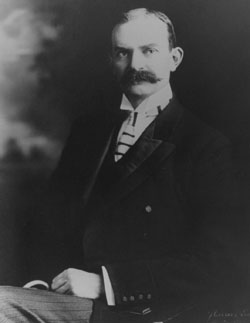 George von Lengerke Meyer (1858–1918) Member of Massachusetts state house of representatives, (1892–96) Speaker of the Massachusetts State House of Representatives, (1894–96) U.S. Ambassador to Italy (1900–05) U.S. Ambassador to Russia (1905–07) U.S. Secretary of the Navy (1909–1913) U.S. Postmaster General (1907–1909)